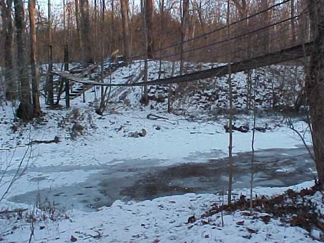 Swinging Bridge Across Harkers Run